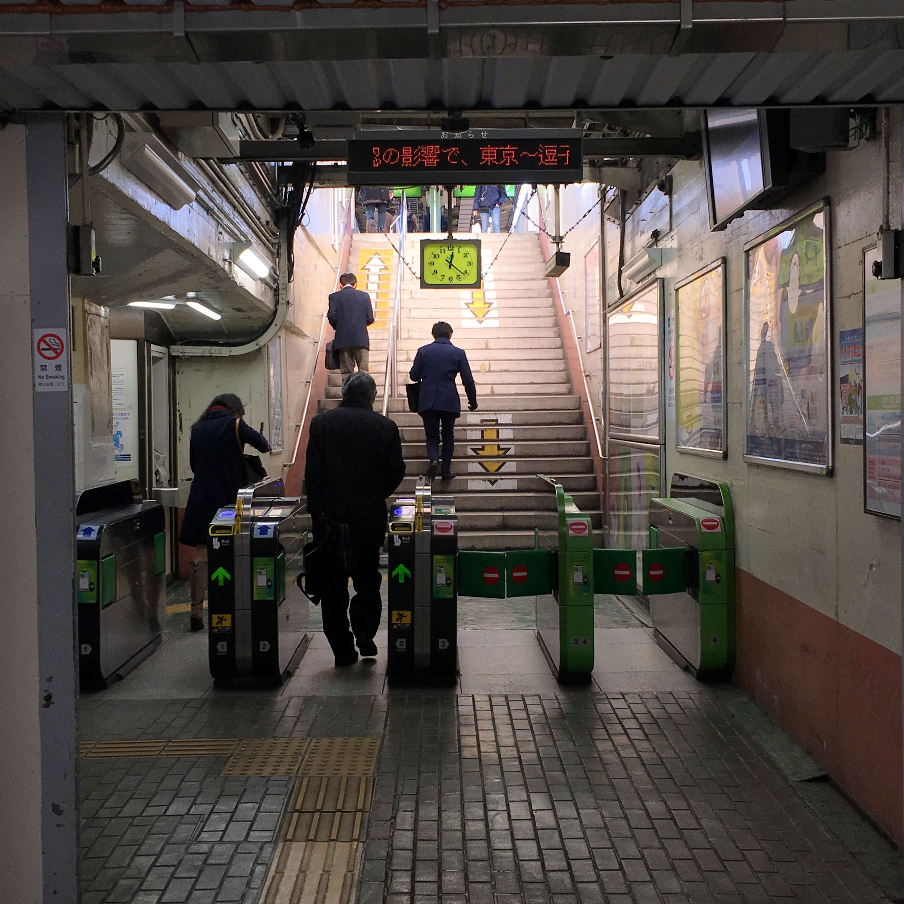 Takadanobaba Station (Yamanote Line of JR East) Toyama entrance (Tokyo, Japan)